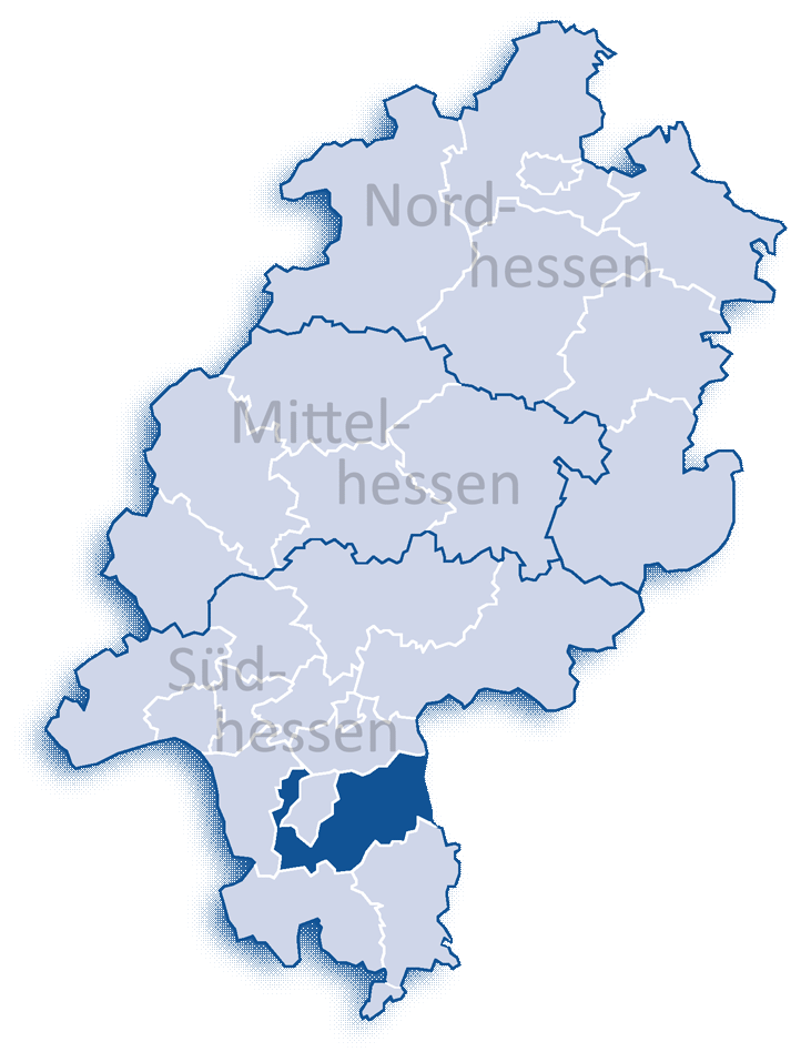 The map shows the district Darmstadt-Dieburg. A district in Hesse